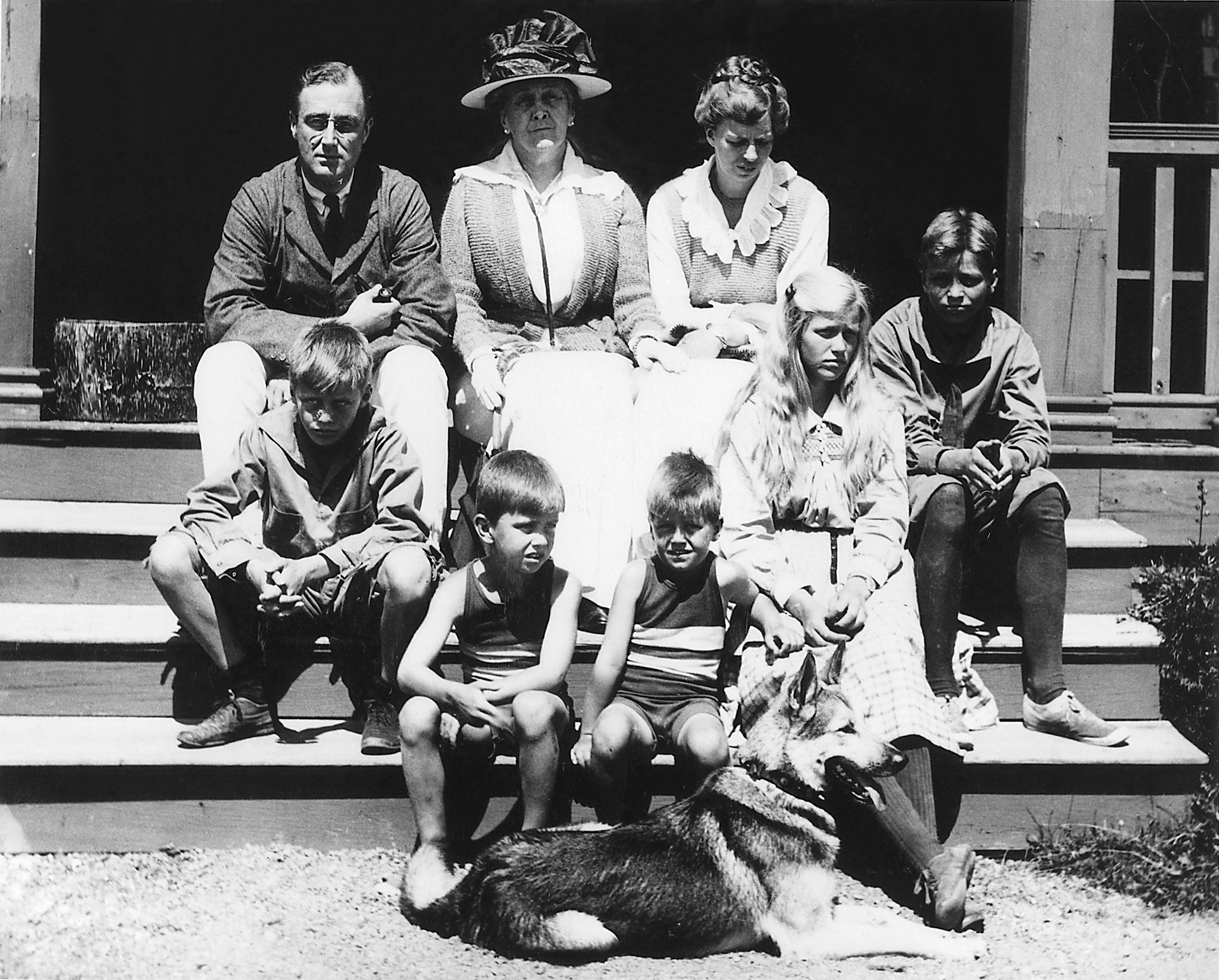 Photograph of Franklin D. Roosevelt with his family at Campobello